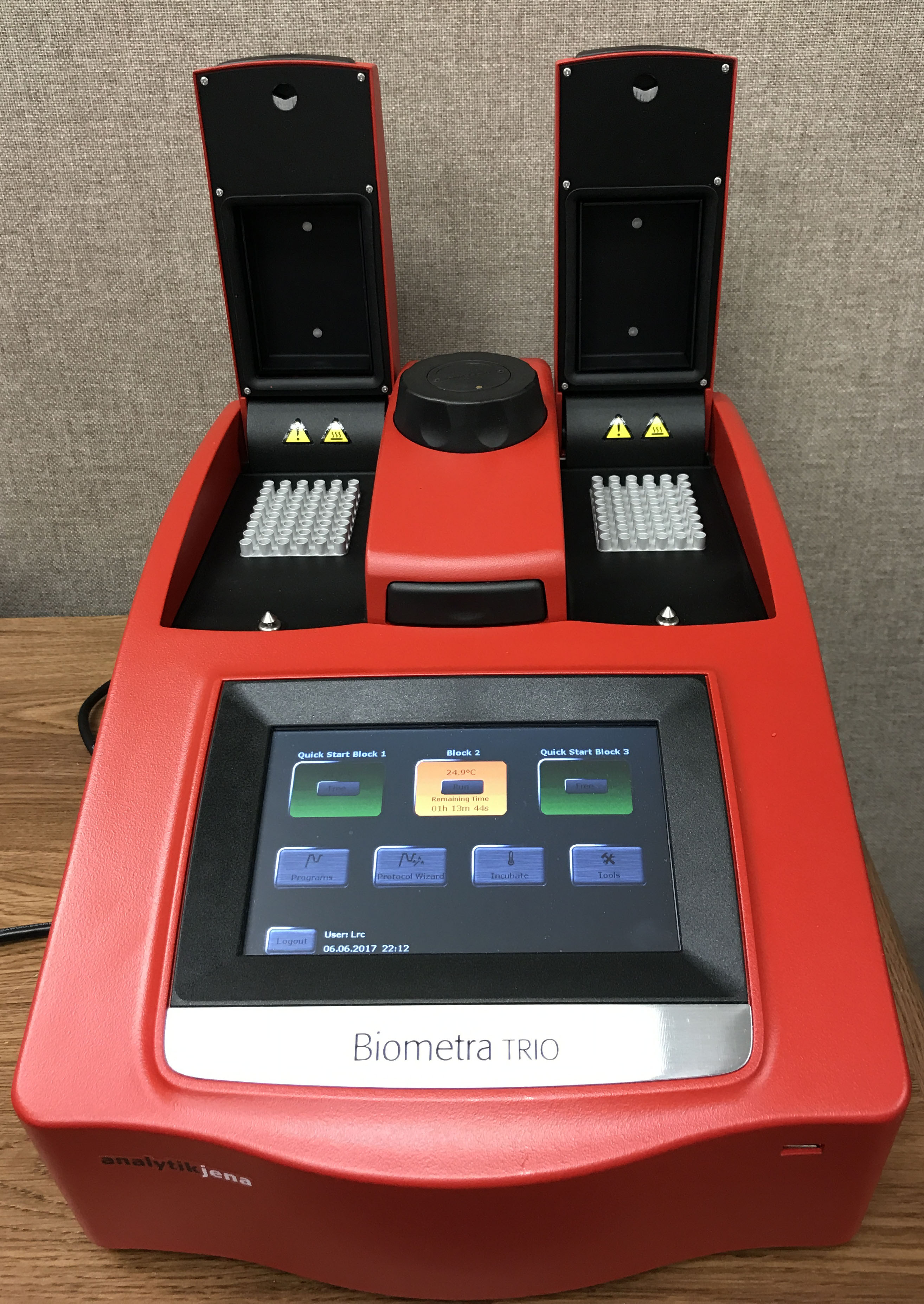 Biometra Trio, a modern thermal cycler with touchscreen technology.